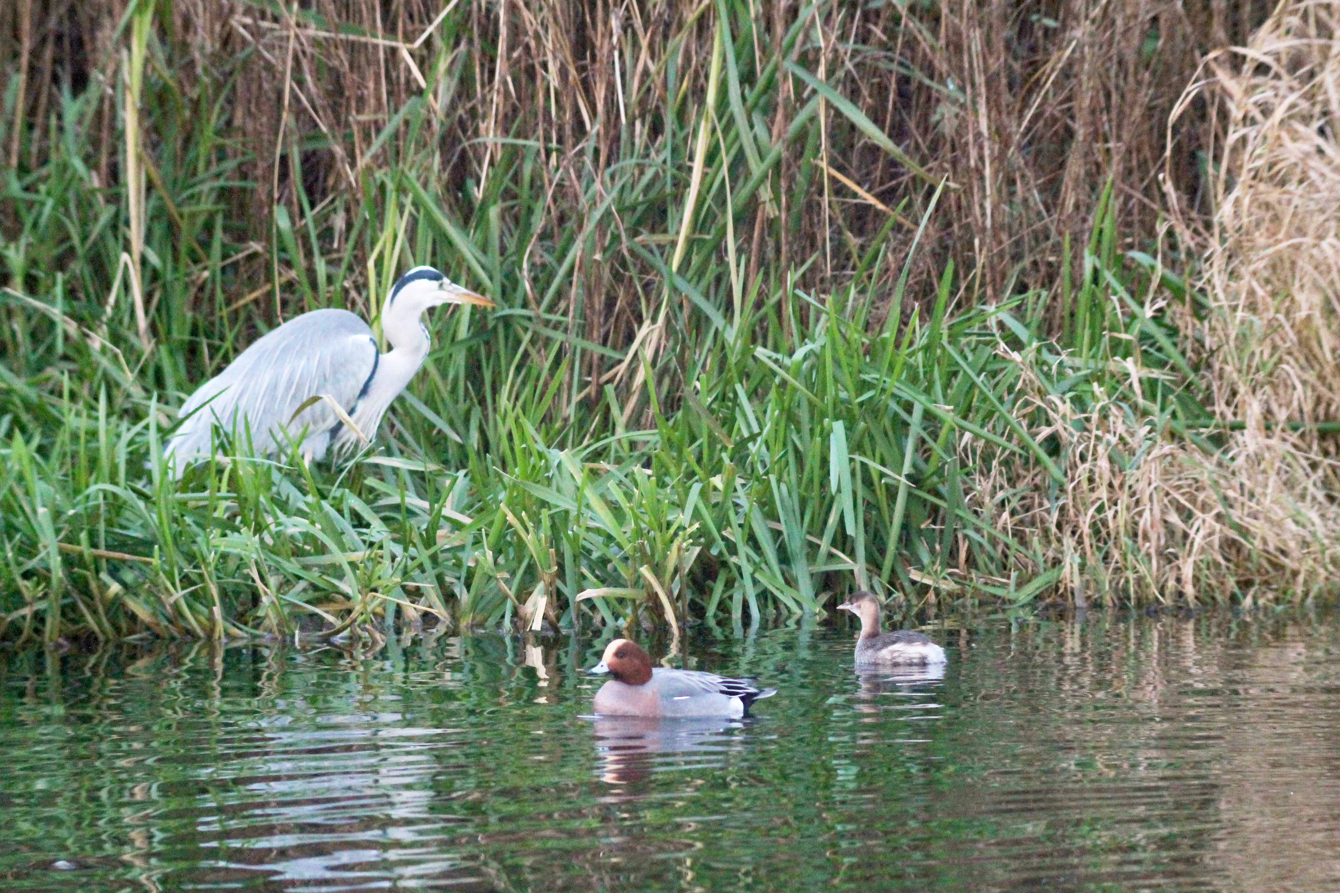 Grey heron, widgeon, and little grebe at the northern bank of the largest of the polishing ponds, which belong to the sewage treatment facility of Lund in southern Sweden